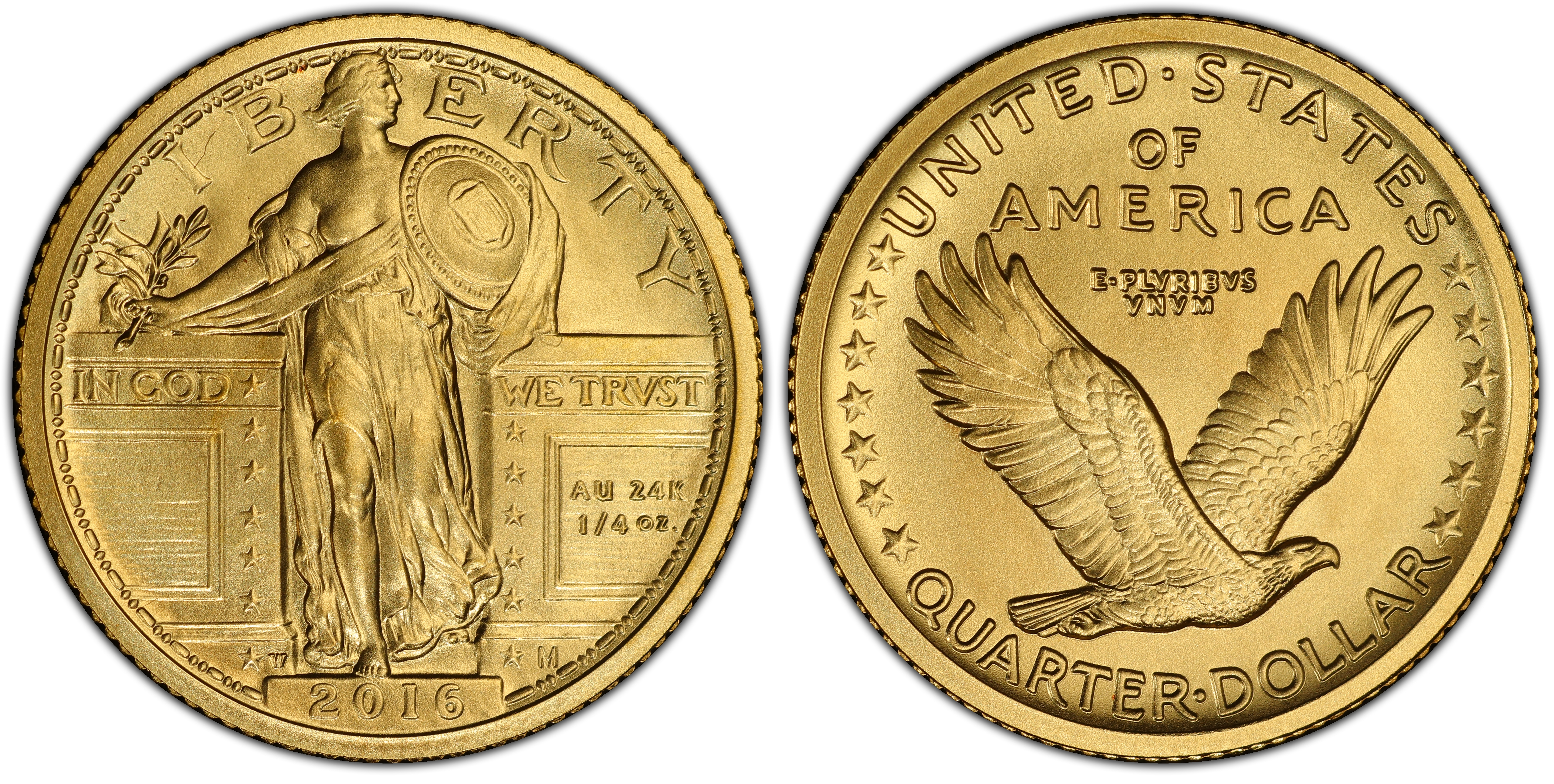 A 100th anniversary 2016-W gold Standing Liberty quarter. This is taken from [1]. As a U.S. coin, the design is in the public domain, and per WP:IUP: "Also note that in the United States, reproductions of two-dimensional artwork which is in the public domain because of age do not generate a new copyright — for example, a straight-on photograph of the Mona Lisa would not be considered copyrighted (see Bridgeman v. Corel). Scans of images alone do not generate new copyrights — they merely inherit the copyright status of the image they are reproducing." Since this is simply a straight-on photo or scan, with no creative aspect involved, it should not be subject to copyright as per this precedent.